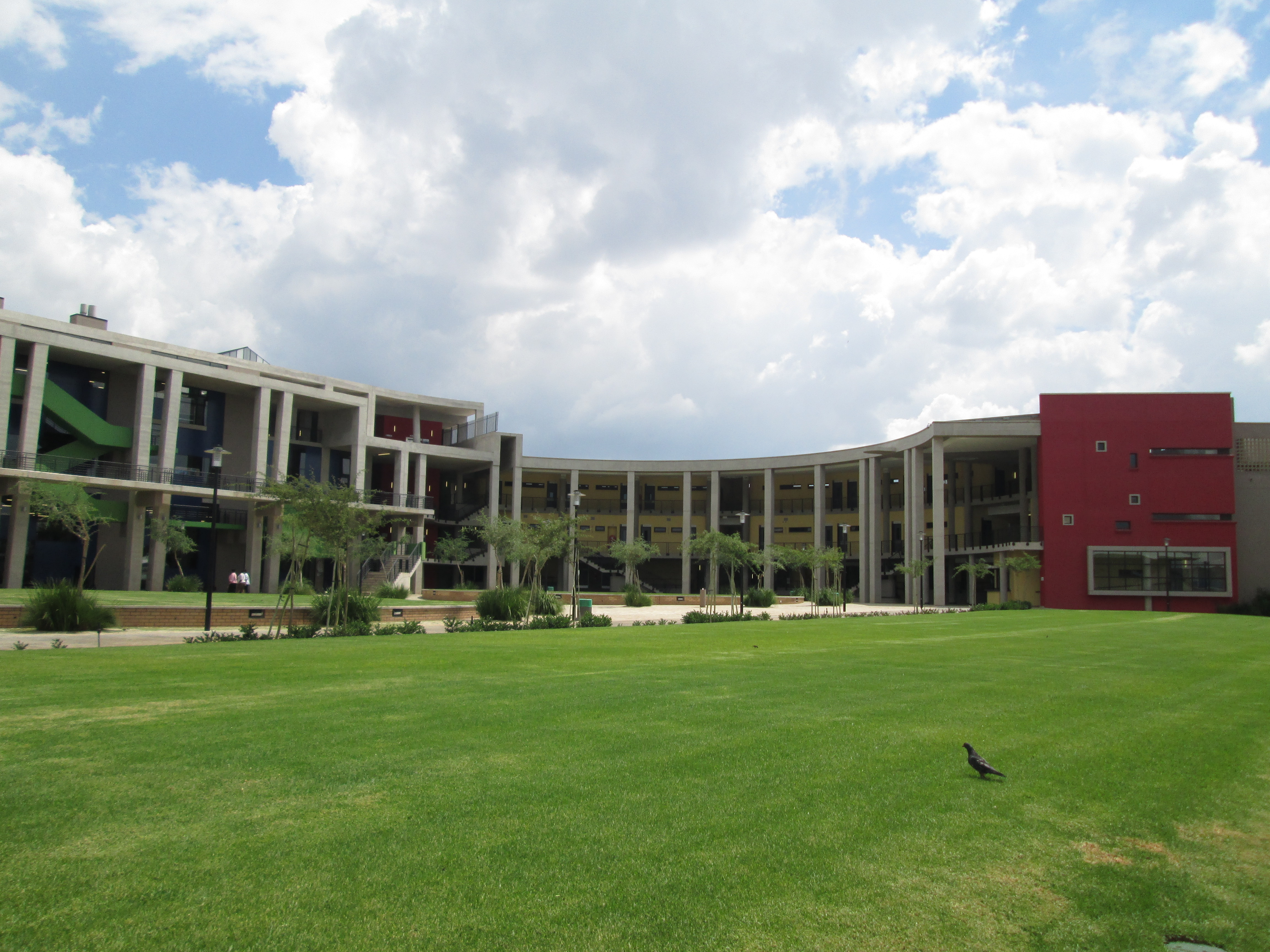 The Science Stadium, on the West Campus of the University of the Witwatersrand, Johannesburg. Built on the same site (and in the same shape) as the former stadium for the Milner Park showgrounds (hence its name).